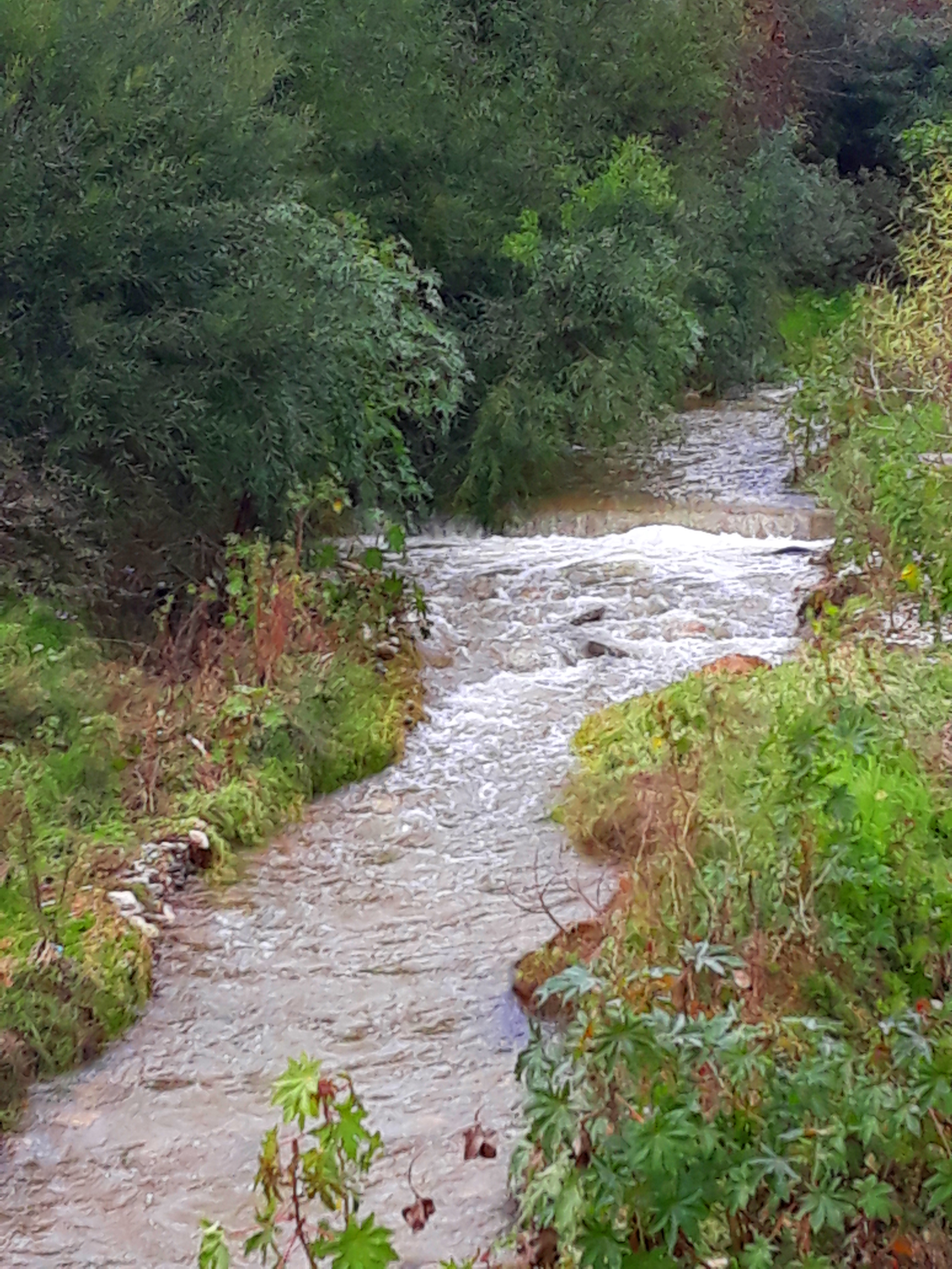 Garyllis river at Limassol, Cyprus.